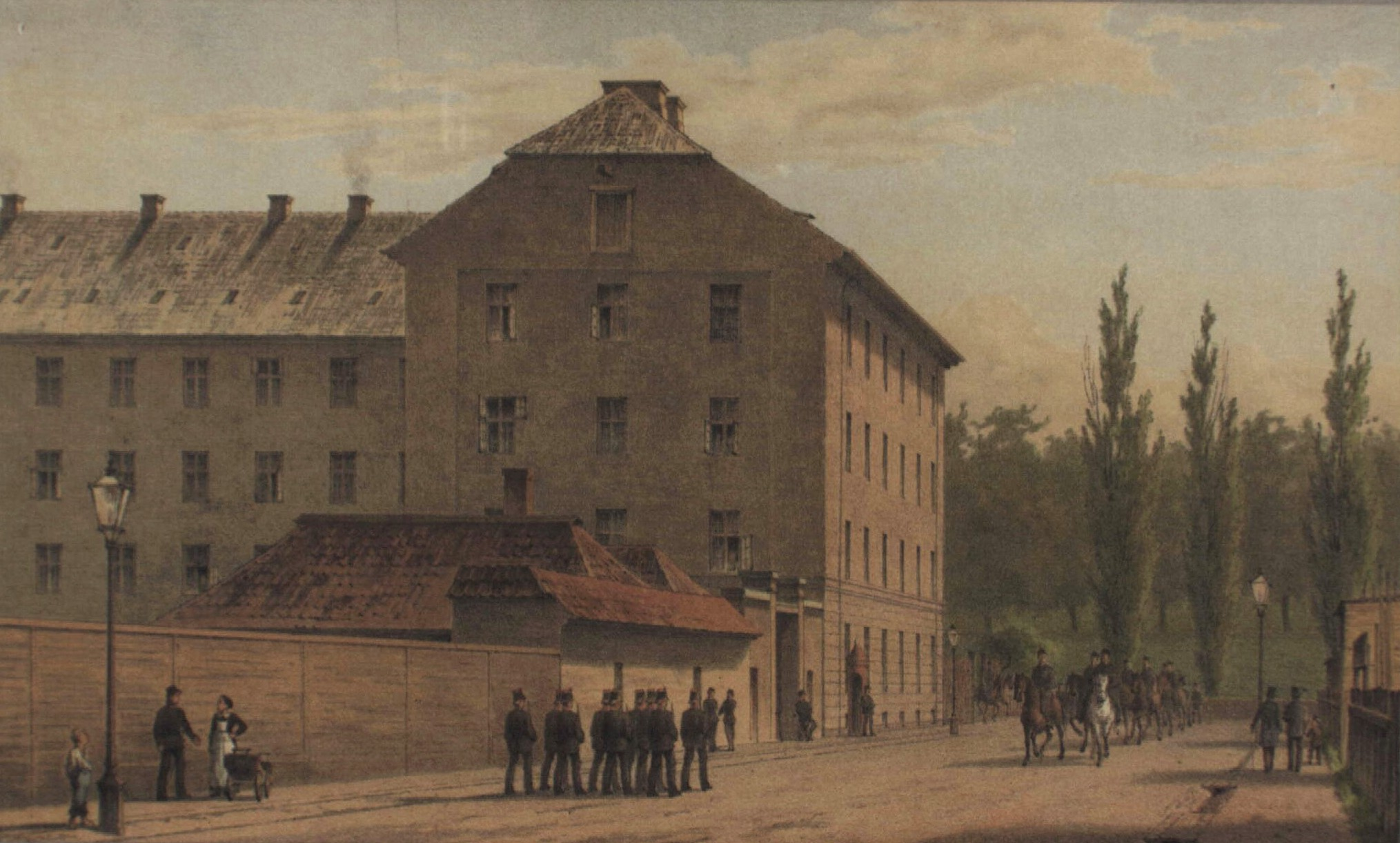 Bådsmandsstræde's Barracks in Christianshavn, Copenhagen (now the Freetown Christiania)